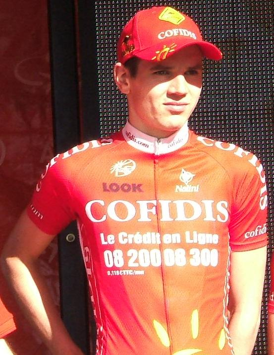 Named cyclist at the en:2009 Tour Down Under team presentation